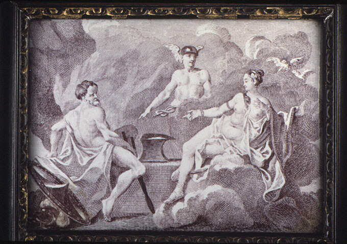 British, Battersea, London; Plaque; Enamels-Painted